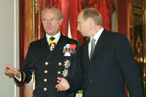 THE KREMLIN, MOSCOW. President Putin with King Carl XVI Gustaf of Sweden.